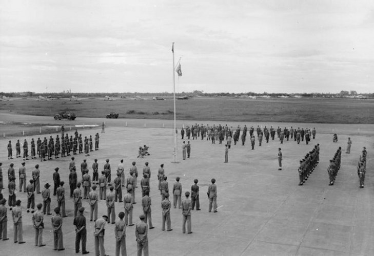 Japanese army ceremony at Sai Gon, 1945